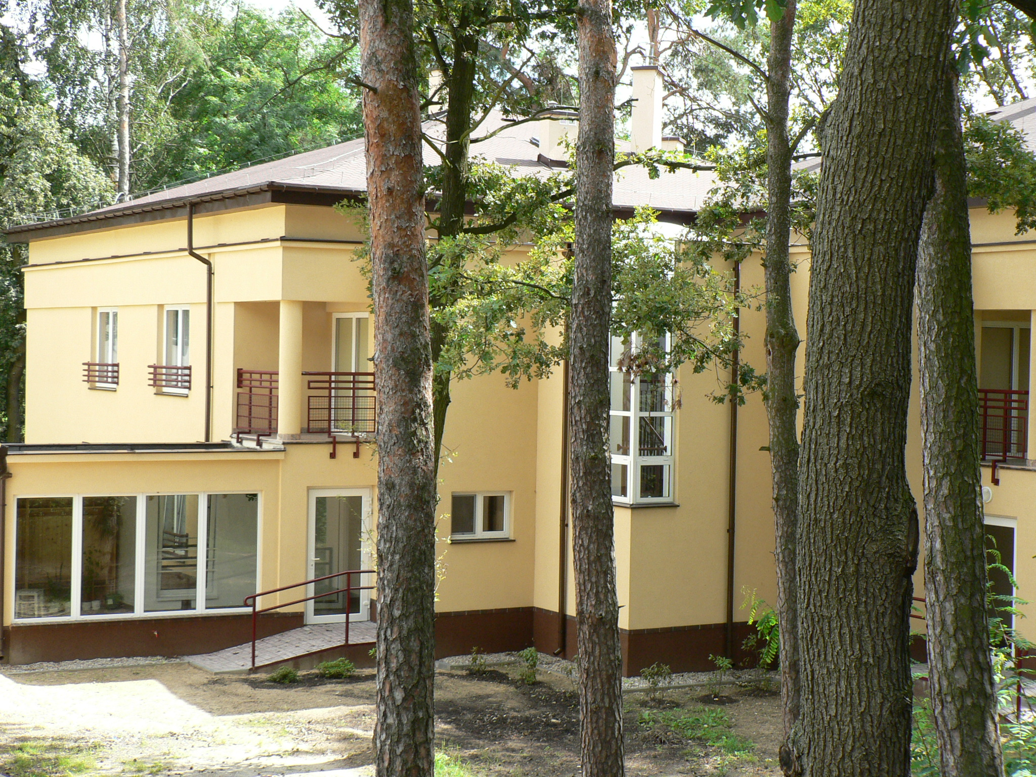 Blind girls' dormitory in Laski, Poland